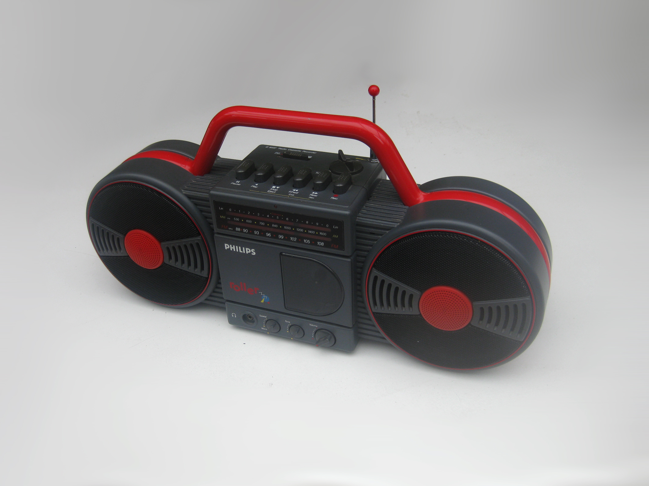 Radio cassette player Philips Roller, 1986